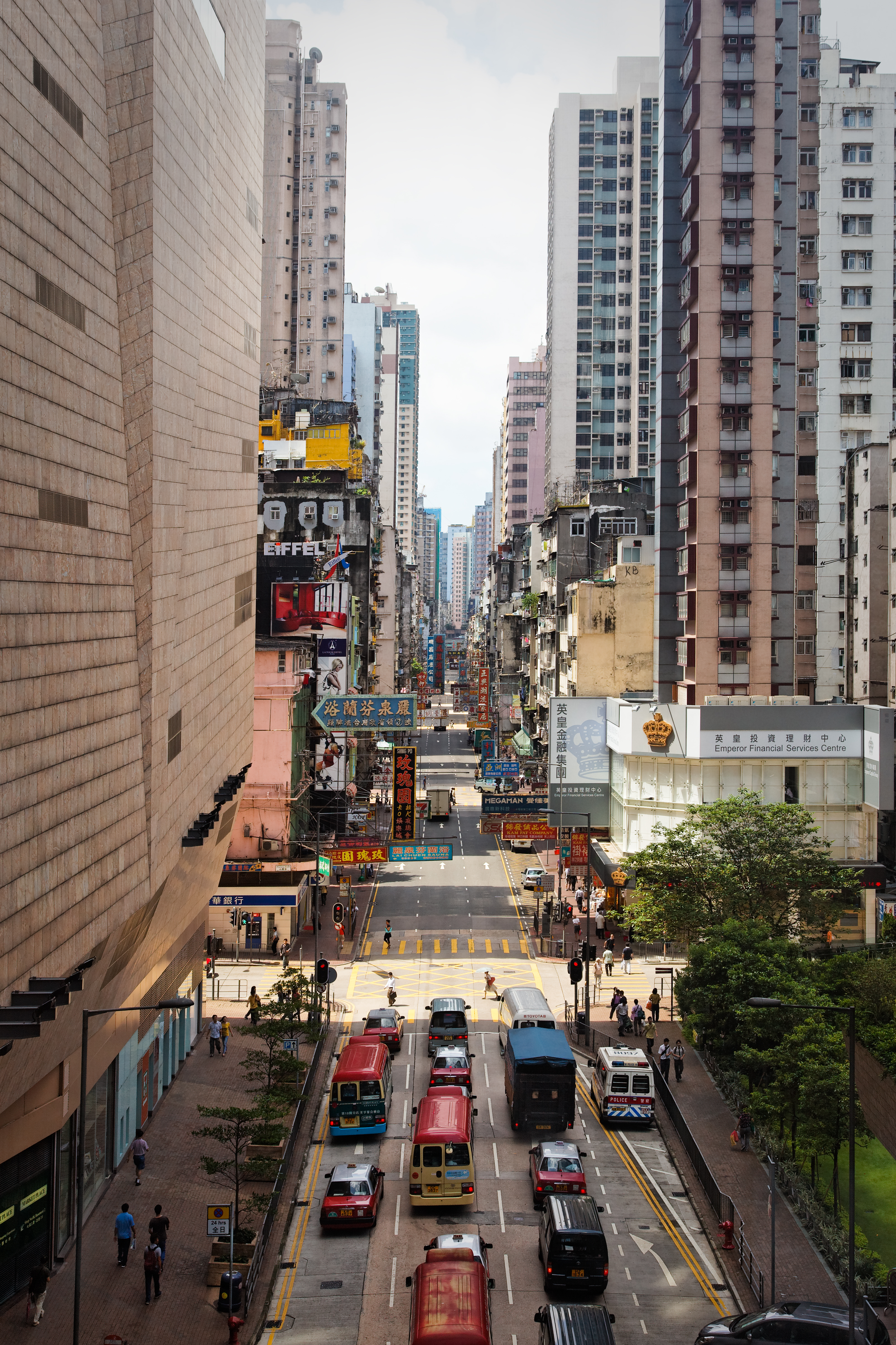 Shanghai Street